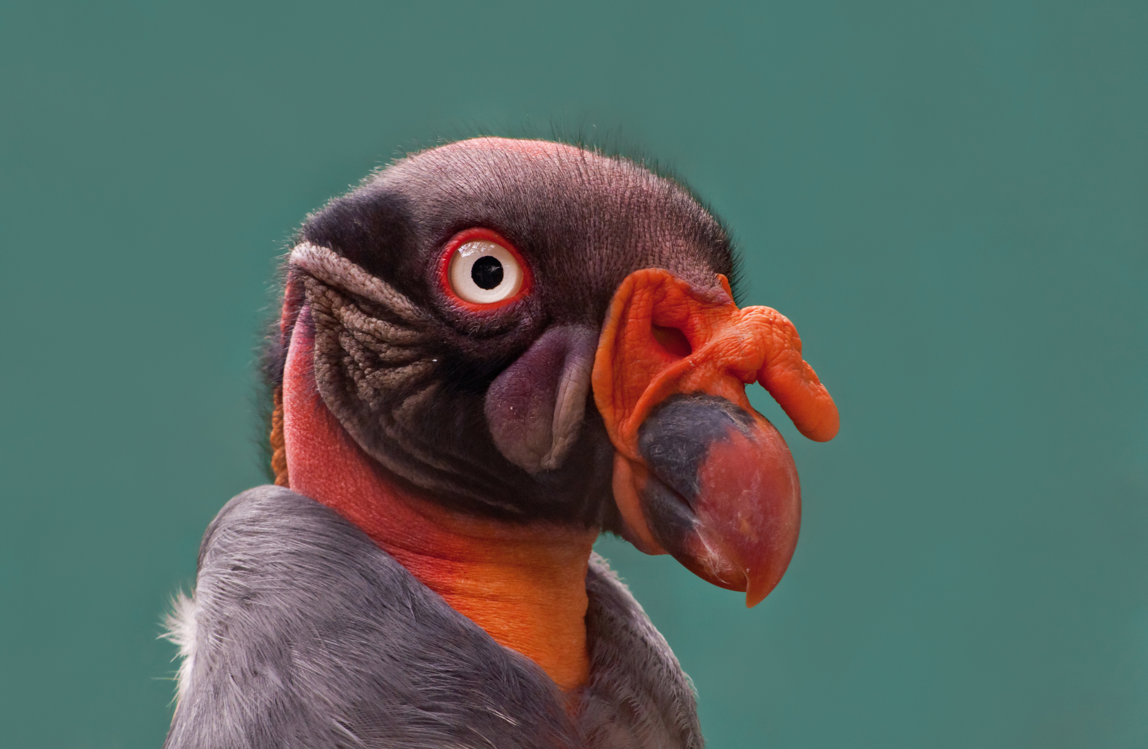 Sarcoramphus papa, King vulture, Caracas, Venezuela